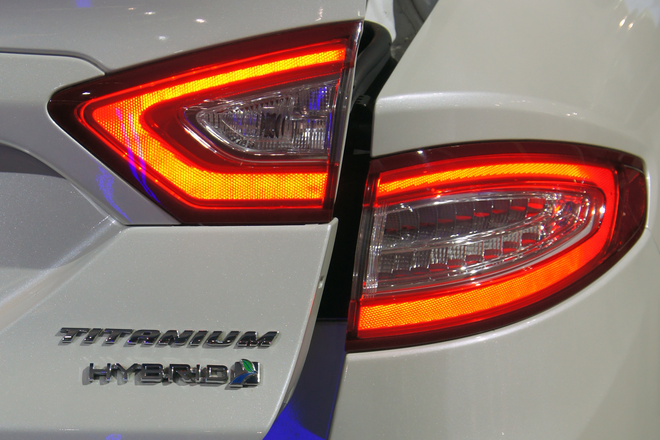 Ford Fusion Hybrid Titanium badge. Brazil